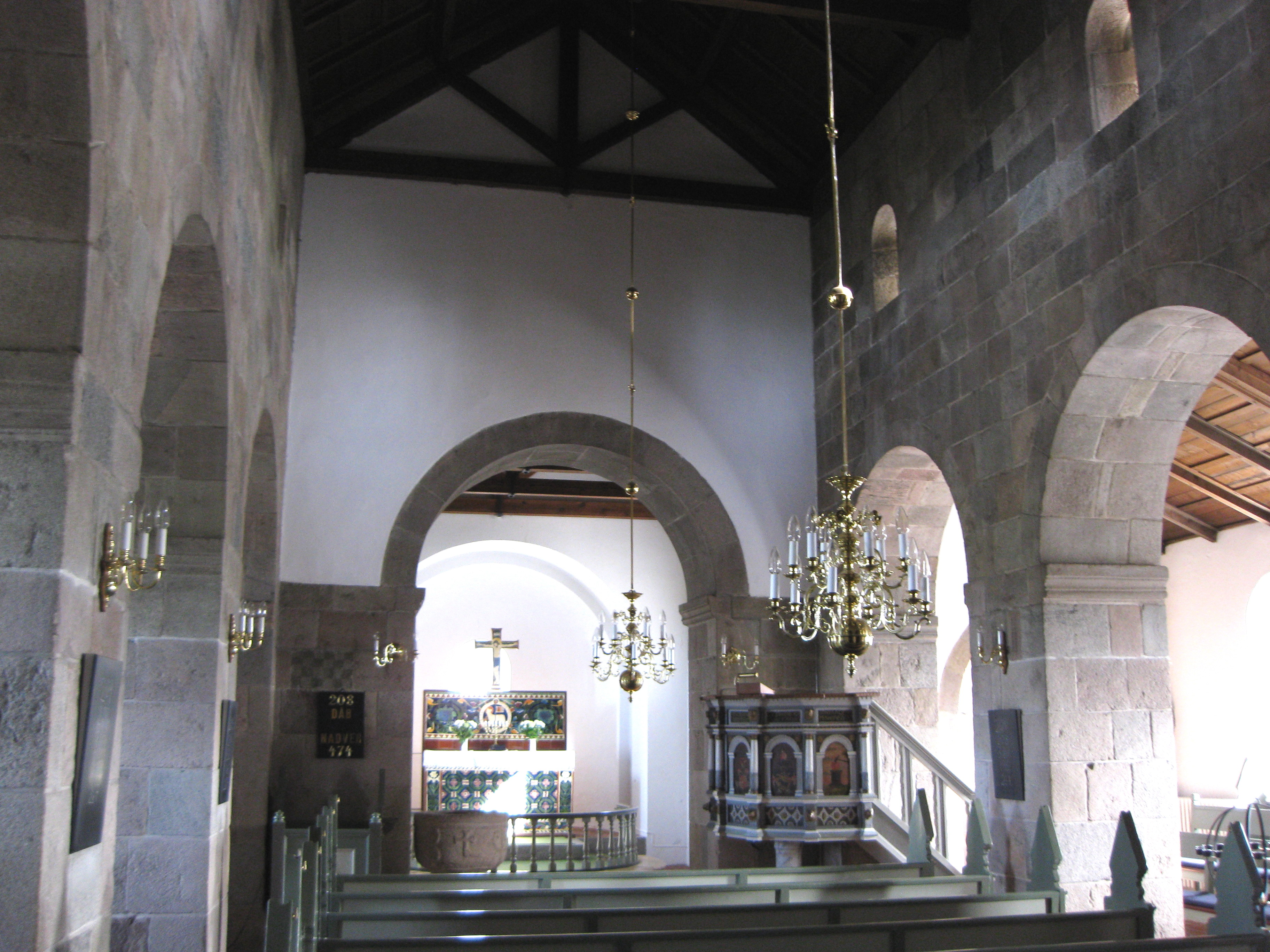 The church room of "Skarp Salling Kirke" located near the small town "Løgstør" in North Jutland, Denmark.